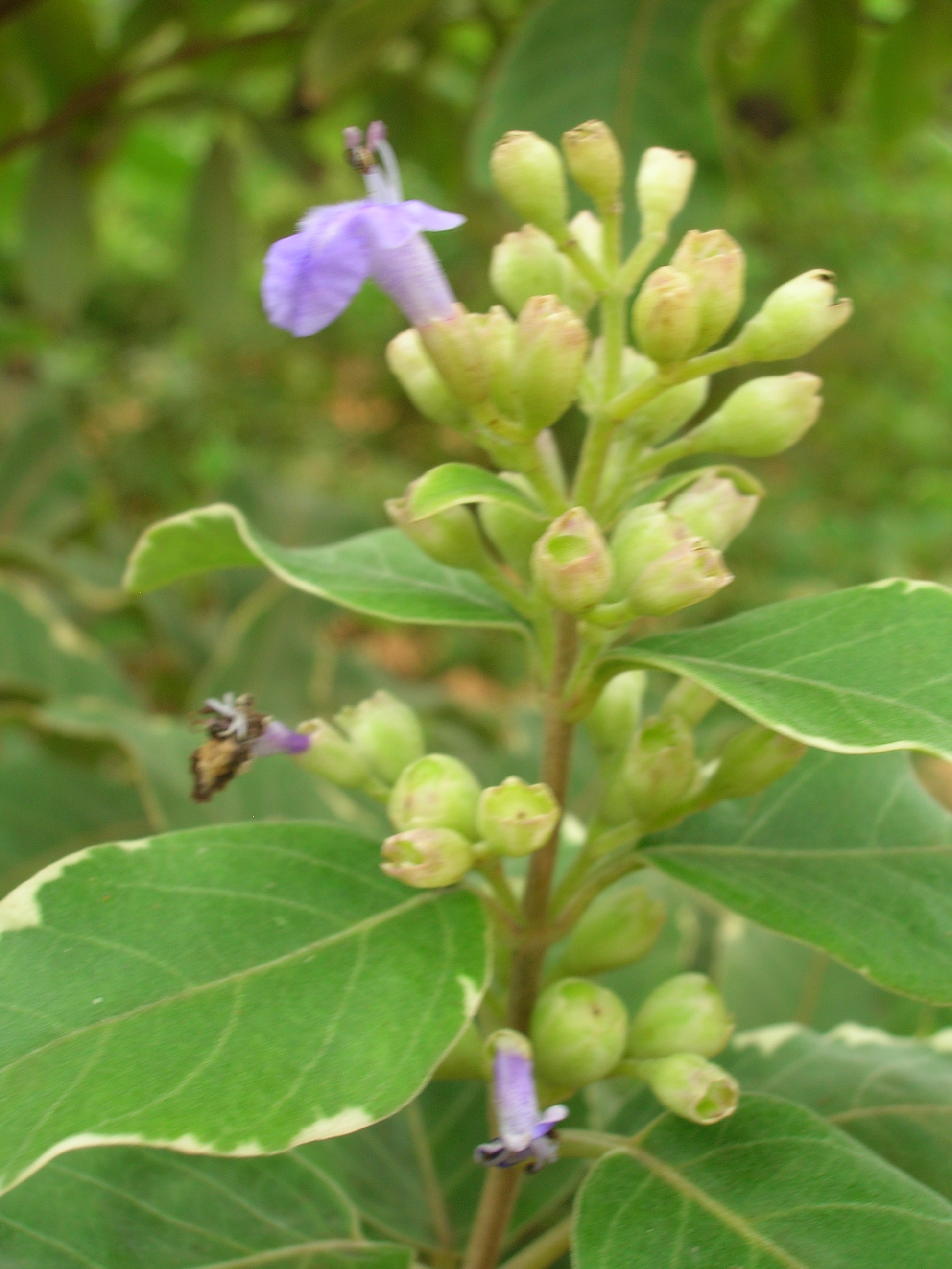 Vitex trifolia (flowers). Location: Maui, Kahului Airport